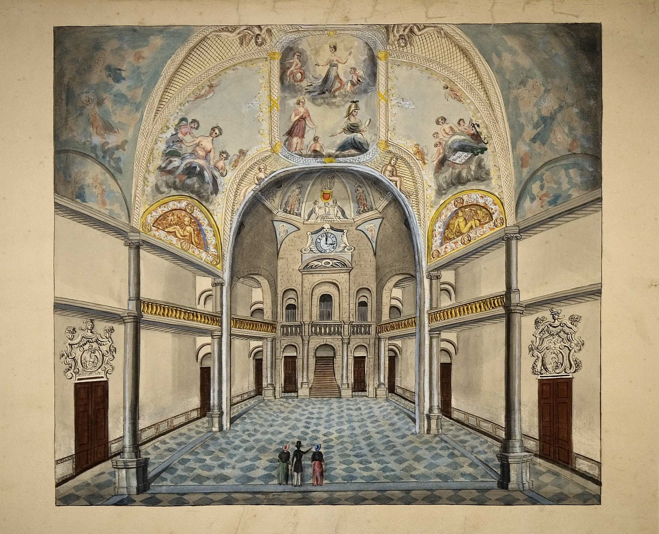 Main hall ('Plein') in the town hall of Maastricht, the Netherlands. Drawing by Philippe van Gulpen, 1853.